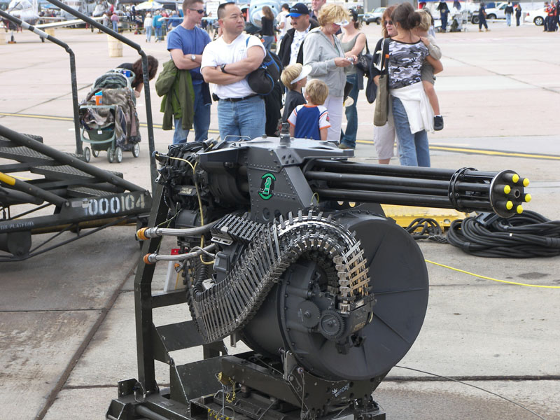 M61 Vulcan. Own work.